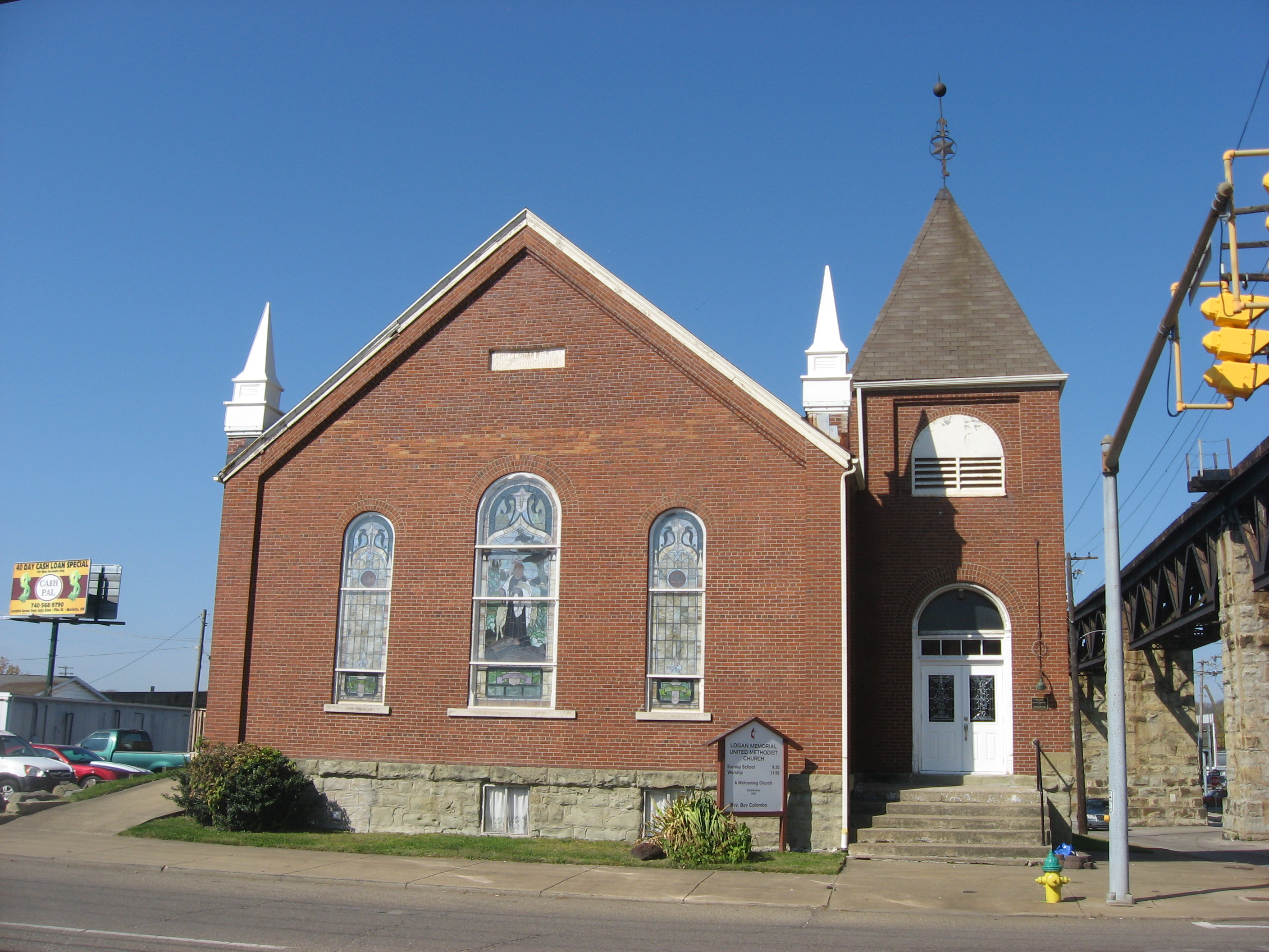 Front of the Henry Logan Memorial AME Church, located on the northwestern corner of the junction of Ann (West Virginia Route 618) and Sixth Streets in Parkersburg, West Virginia, United States. Built in 1891, it is listed on the National Register of Historic Places.